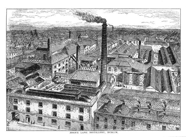 View of the John's lane distillery in 1887, from Alfred Barnard